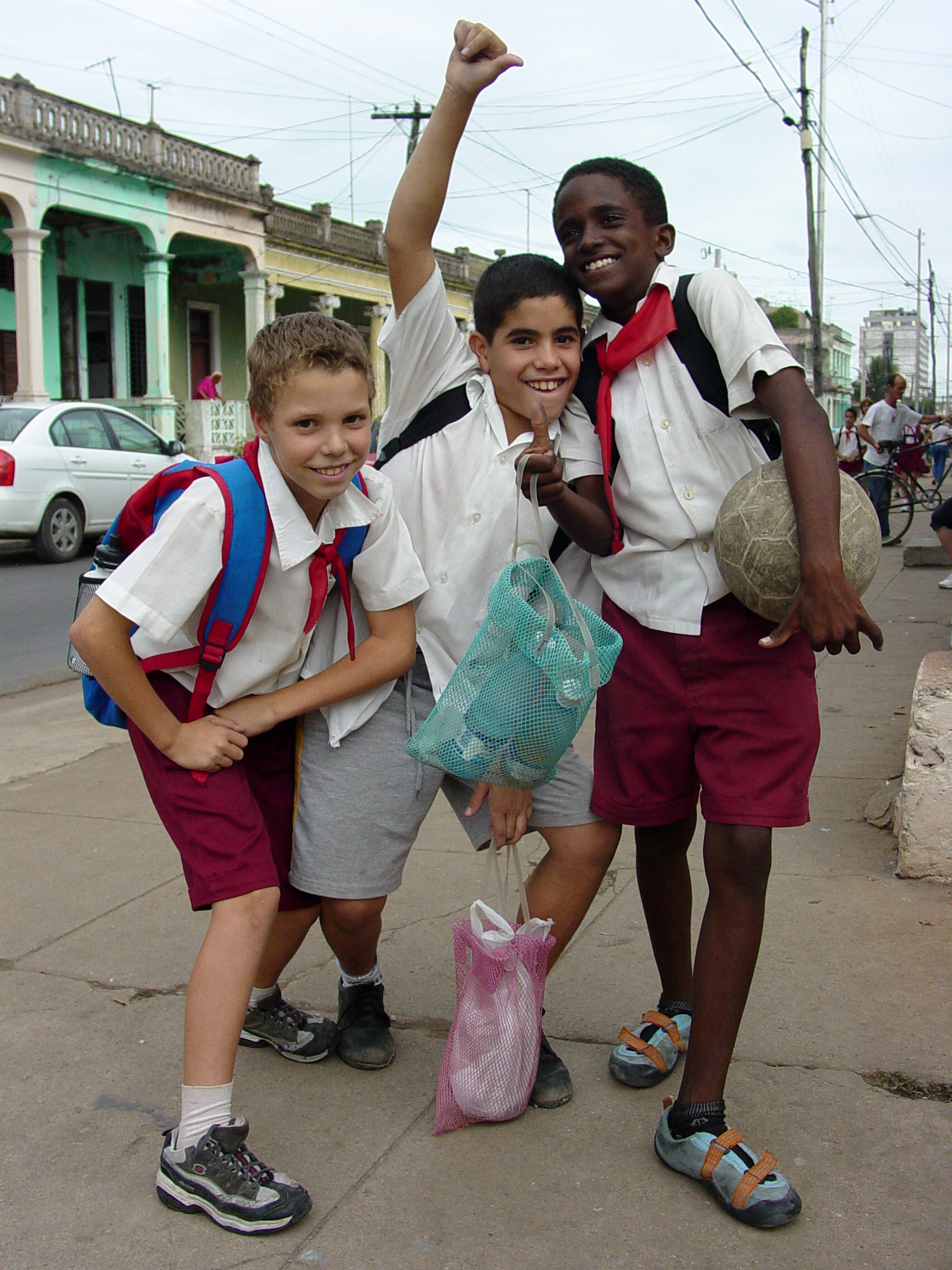 Young boys in school uniform with football, Pinar del Rio, Cuba. December 2006.